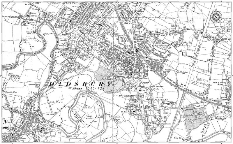 An Ordnance Survey map of Didsbury from 1905. (HOSM43314) Source